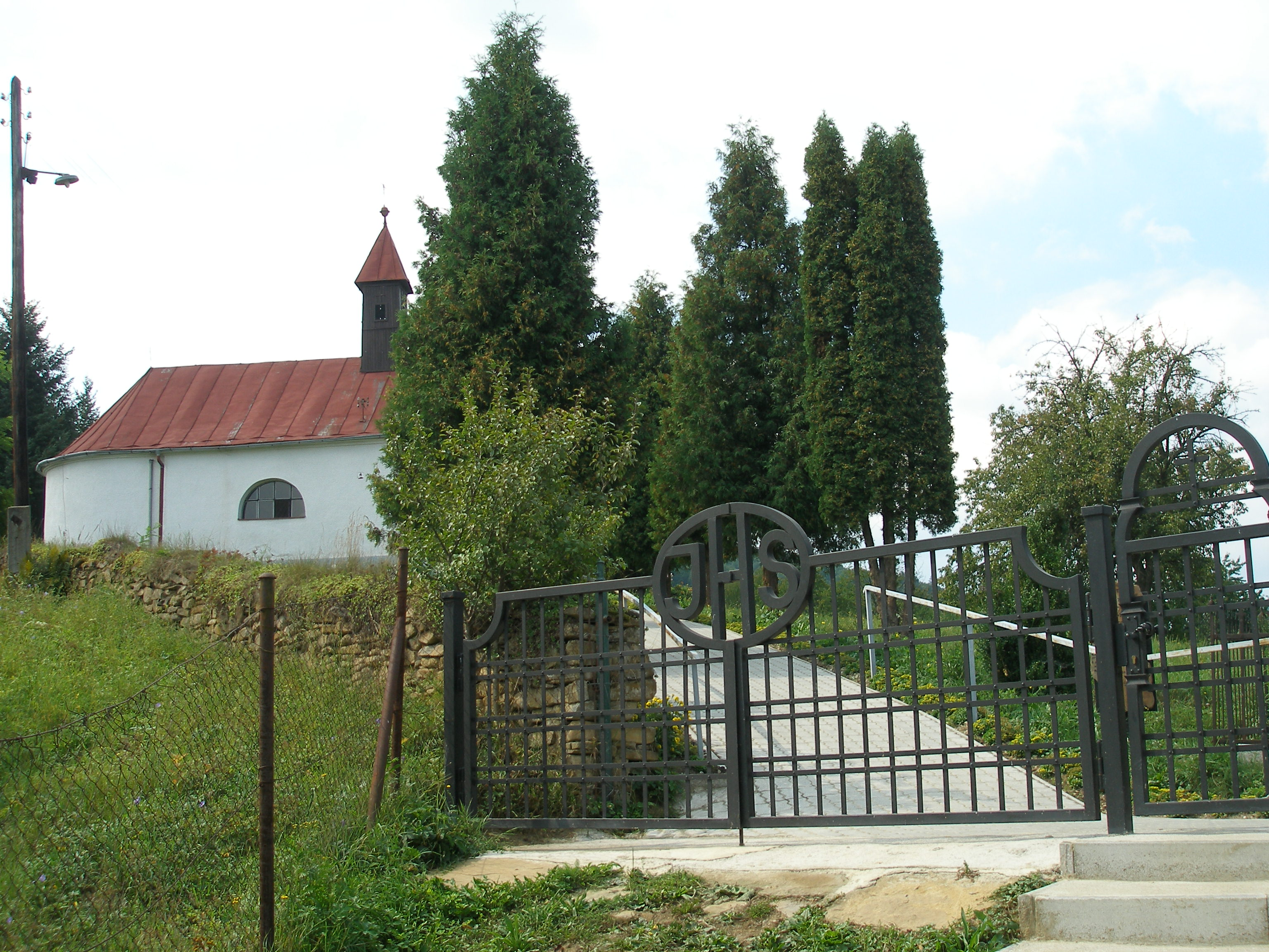 Šarišská obec Chminianske Jakubovany This medium shows the protected monument with the number 707-301/0 (other) in the Slovak Republic.